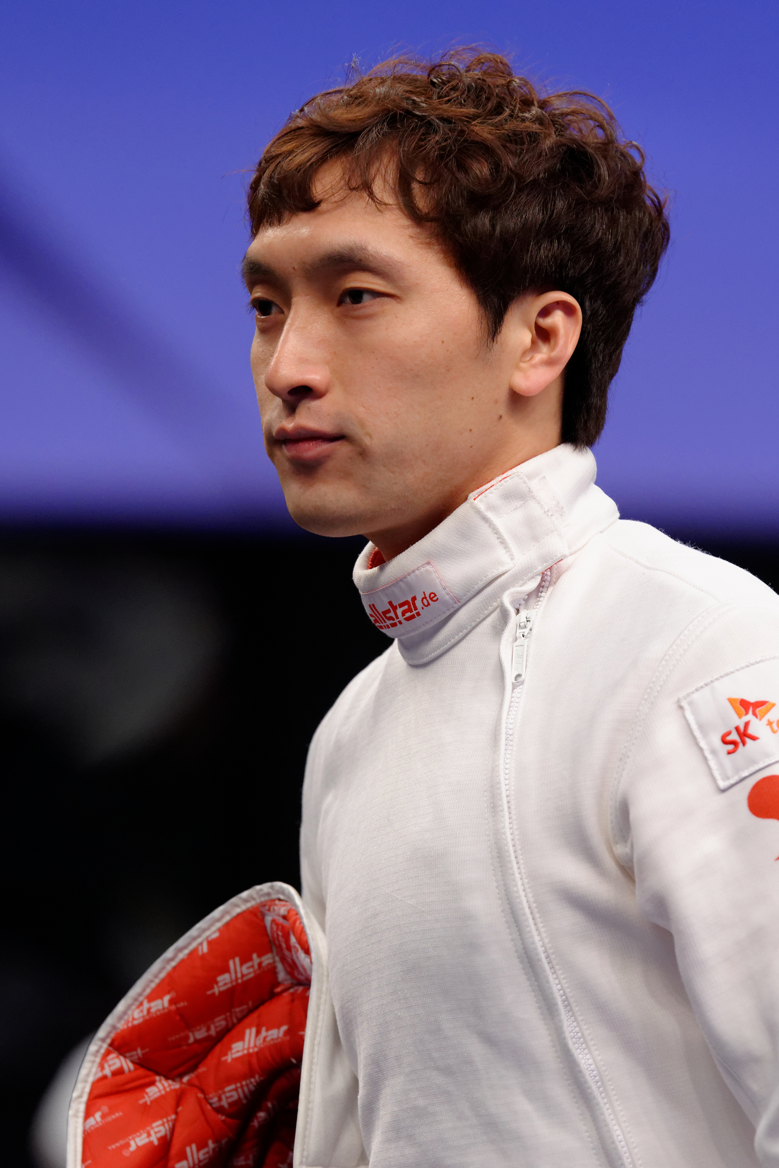 South Korea's Park Kyoung-doo during his T64 match against Pavel Sukhov of Russia at the 2014 Challenge RFF-Trophée Monal, a men's épée World Cup event, on 3 May 2014.